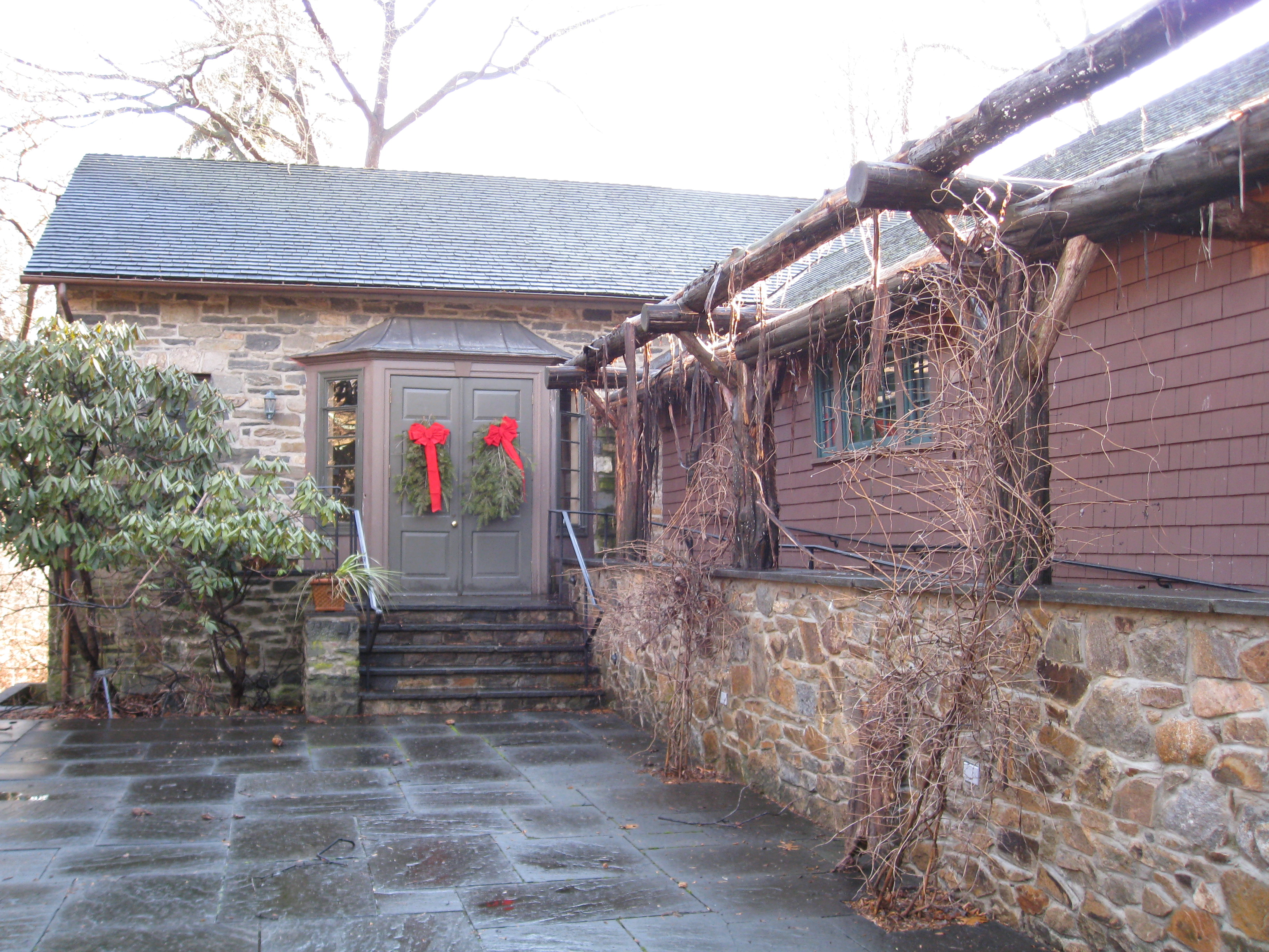 Exterior of the Connecticut Audubon Society Birdcraft Museum & Sanctuary in Fairfield, CT